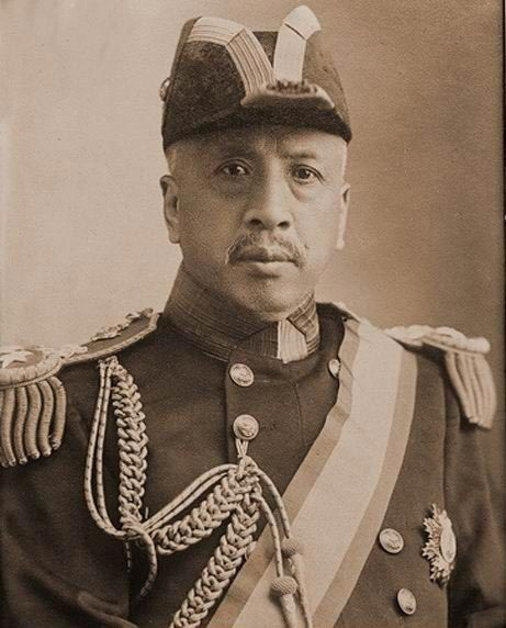 Cheng Biguang in America, 1911